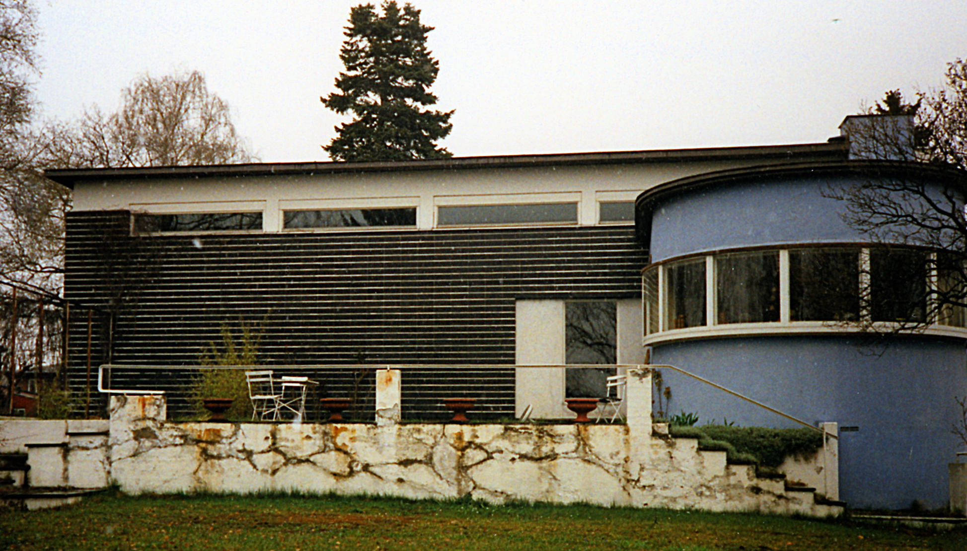 Villa Damman drawing by Arne Korsmo Photo: Nina Aldin Thune